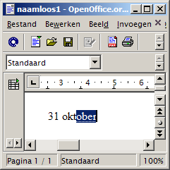 A screenshot of the autocompletion function in the Dutch version of .